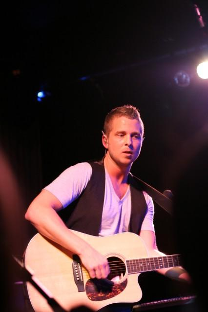 OneRepublic lead singer, Ryan Tedder performing with the band at the Canal Room, New York.